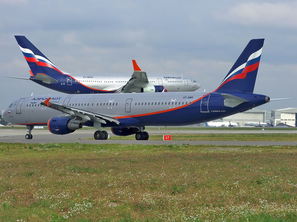 An Aeroflot Airbus A321-211 at Sheremetyevo International Airport (SVO / UUEE). An Aeroflot Ilyushin Il-96-300 (RA-96010) is seen in the background.